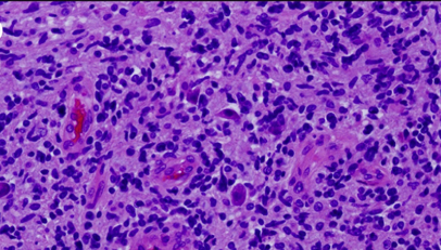 Hematoxylin and eosin stain from a high-grade diffuse intrinsic pontine glioma.